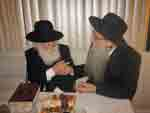 A small photo of two unidentified men with beards